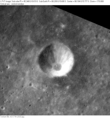 Tucker lunar crater - Apollo-17 image AS17-M-2830 LTVT.